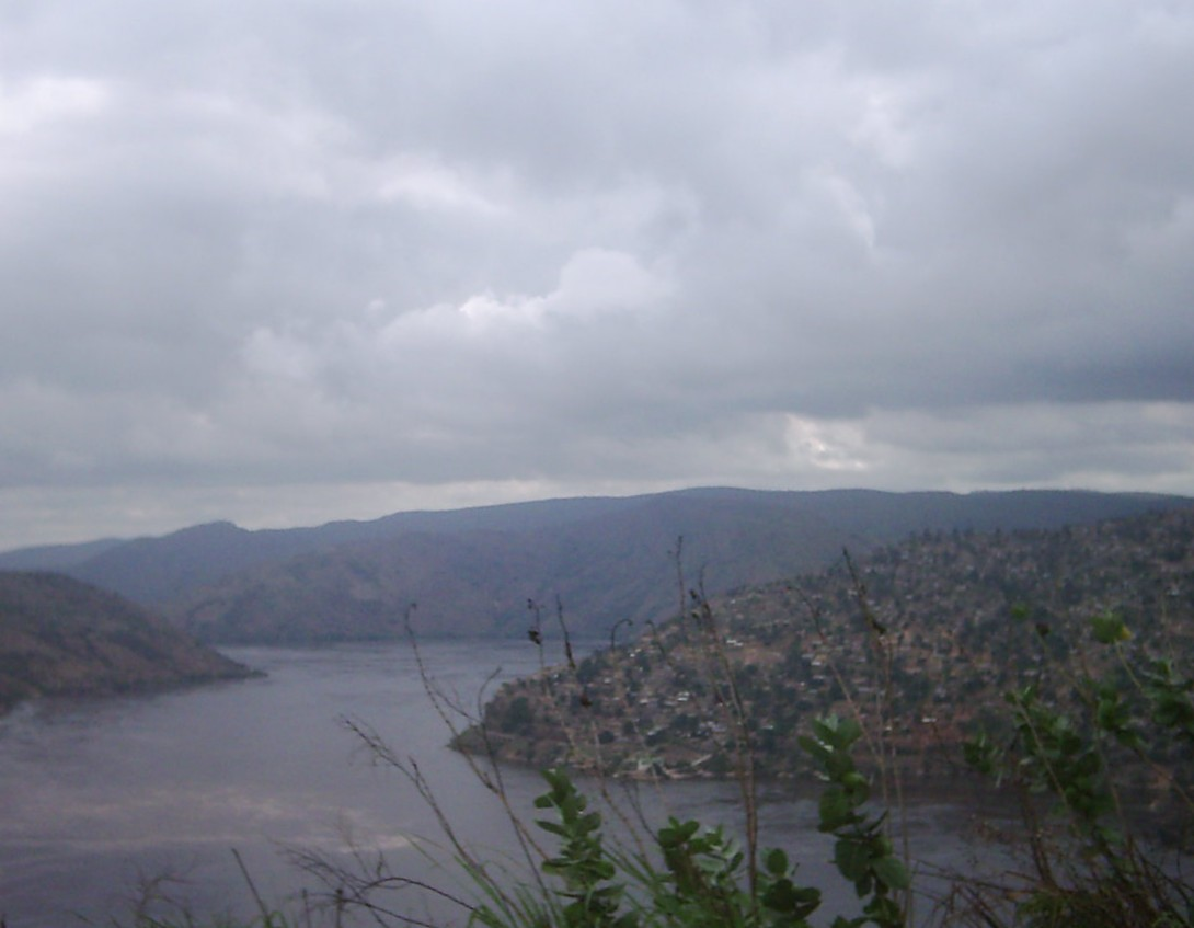 A suburb of Matadi, seen from the right bank of the Congo (fleuve) river